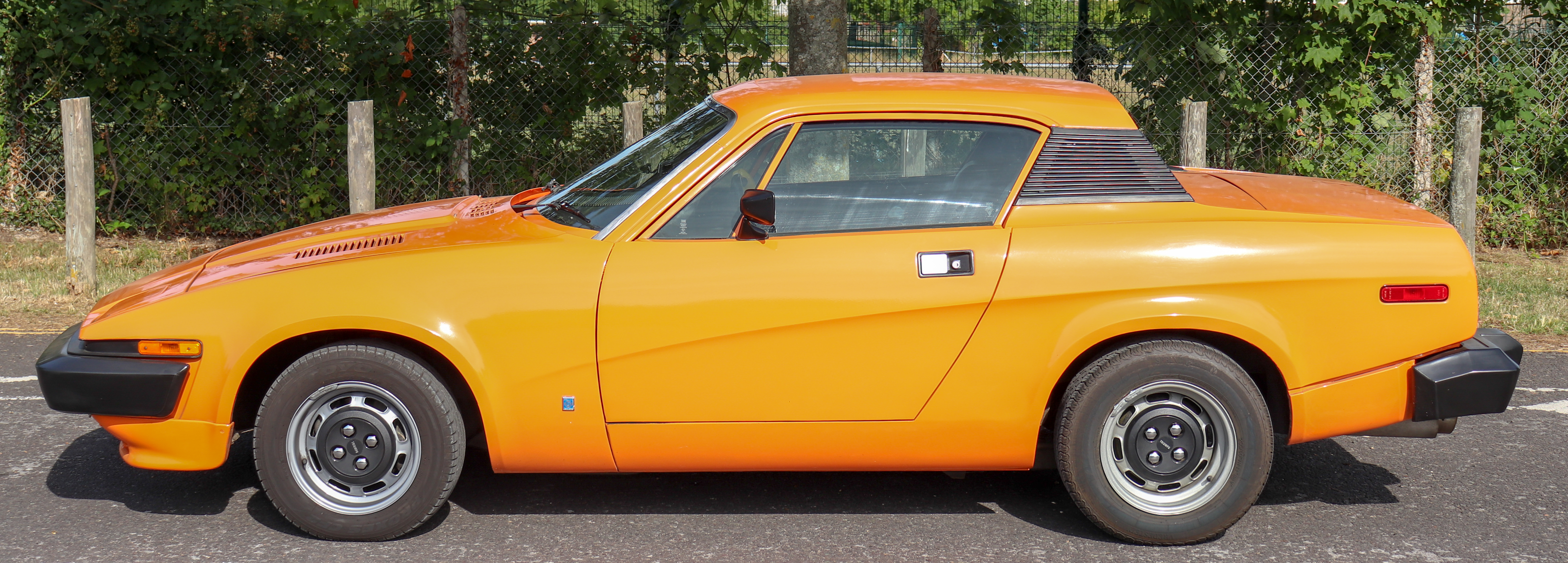 1975 Triumph TR7 3.5 Side Taken in Weymouth, Dorset